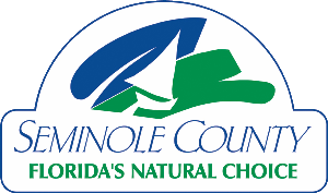 Seal of Seminole County, Florida.